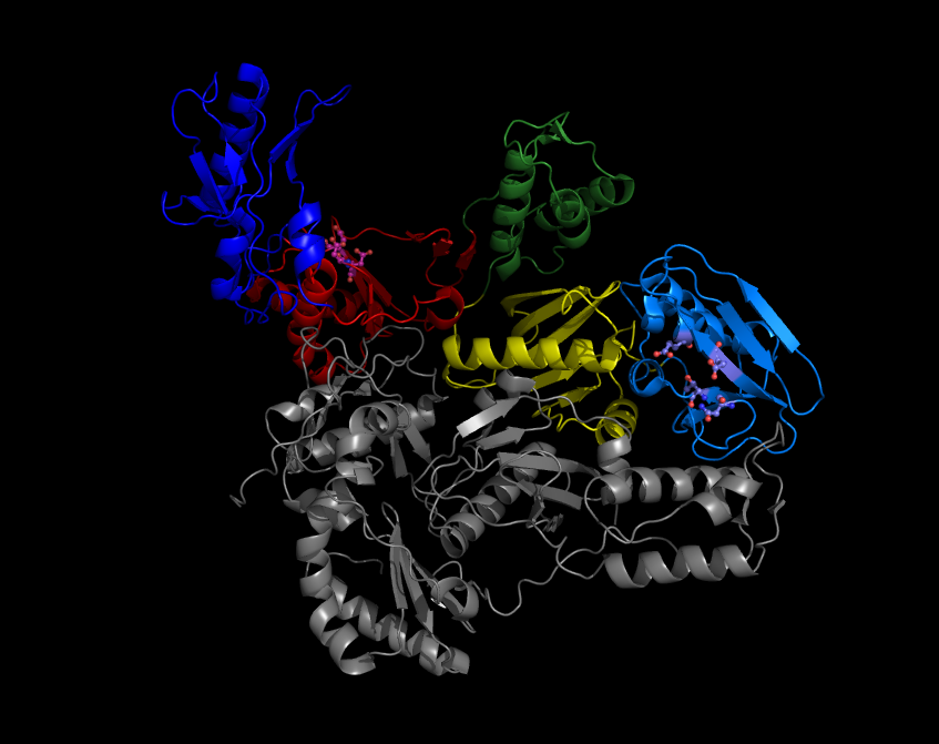 Cartoon structure of HIV enzyme